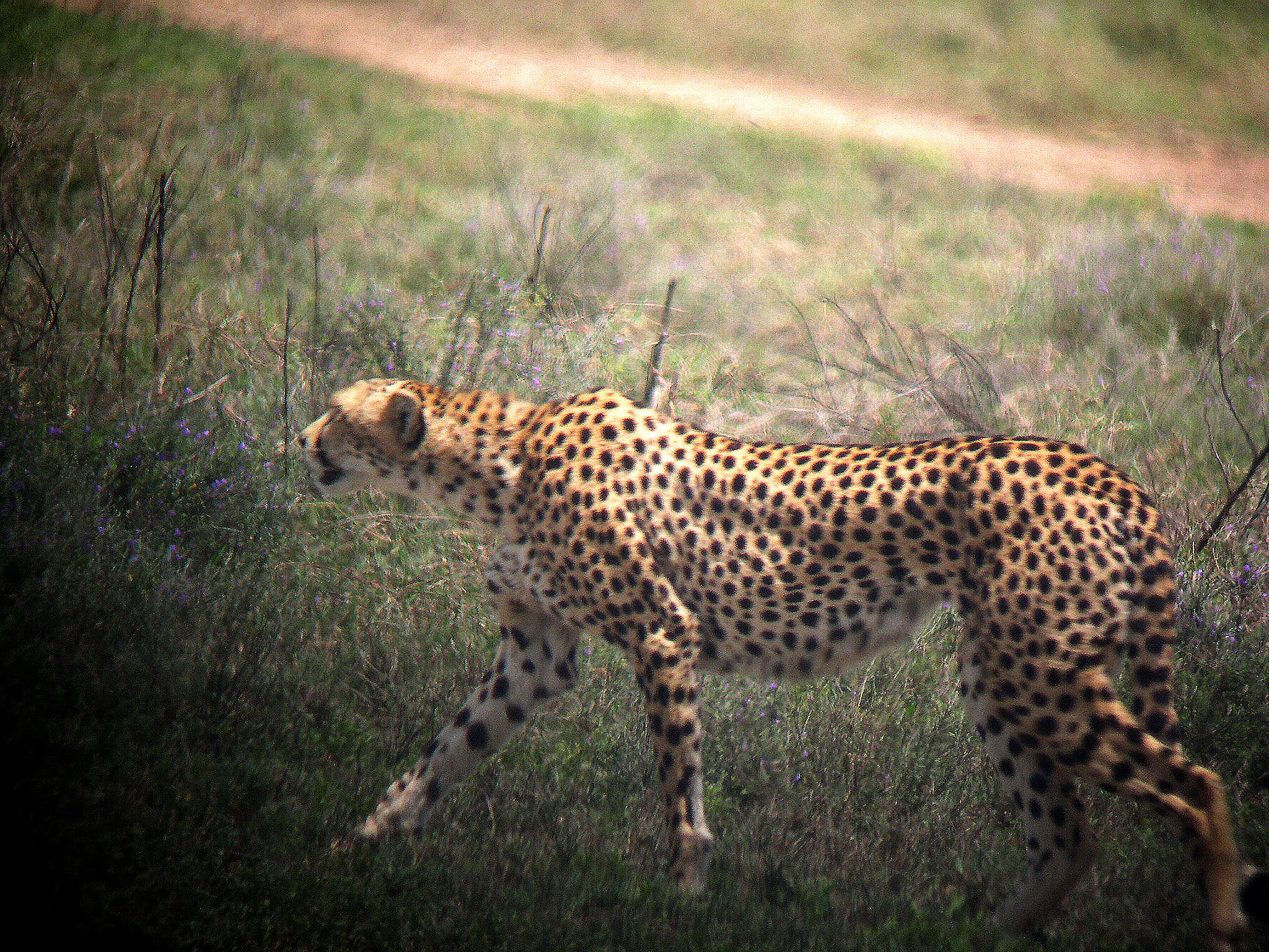 Cheeta hunting